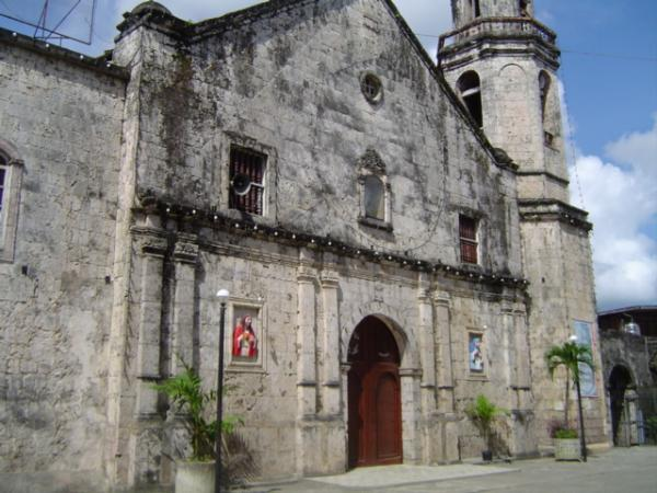 Our Lady of Assumption Cathedral in Maasin City, Southern Leyte, Philippines.